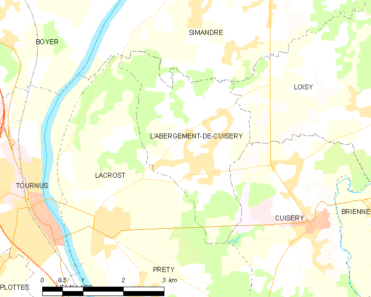 Map of French municipality